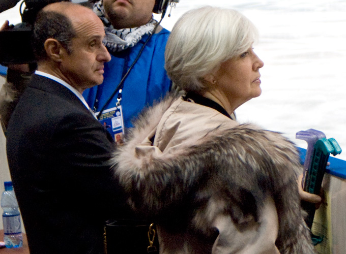 2010 Cup of Russia, short program.